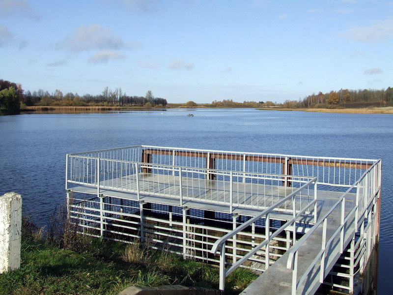 Liberiškis pond, Panevėžys district, Lithuania.